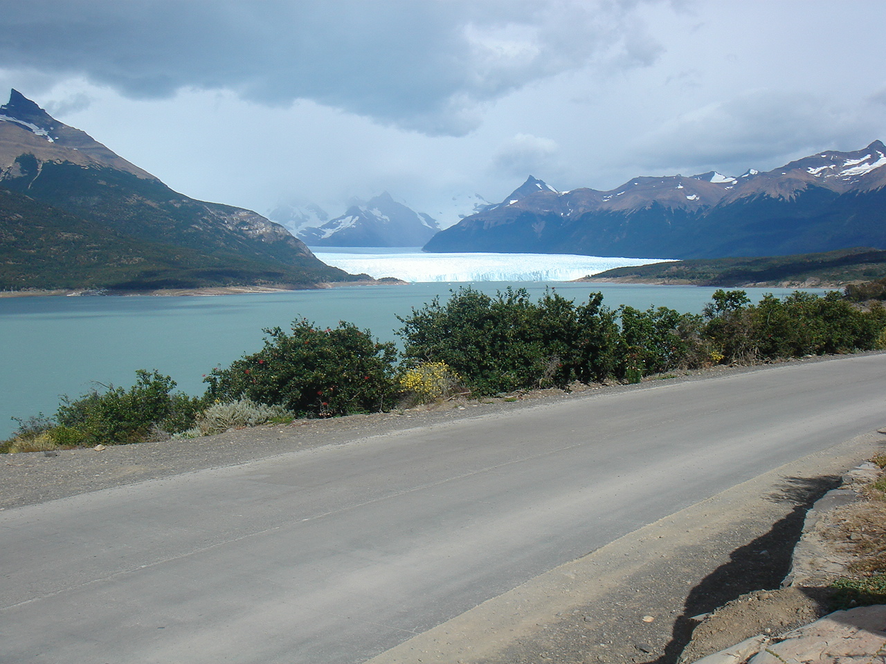 First view of Perito Moreno Glacier know as "Curva de los suspiros"